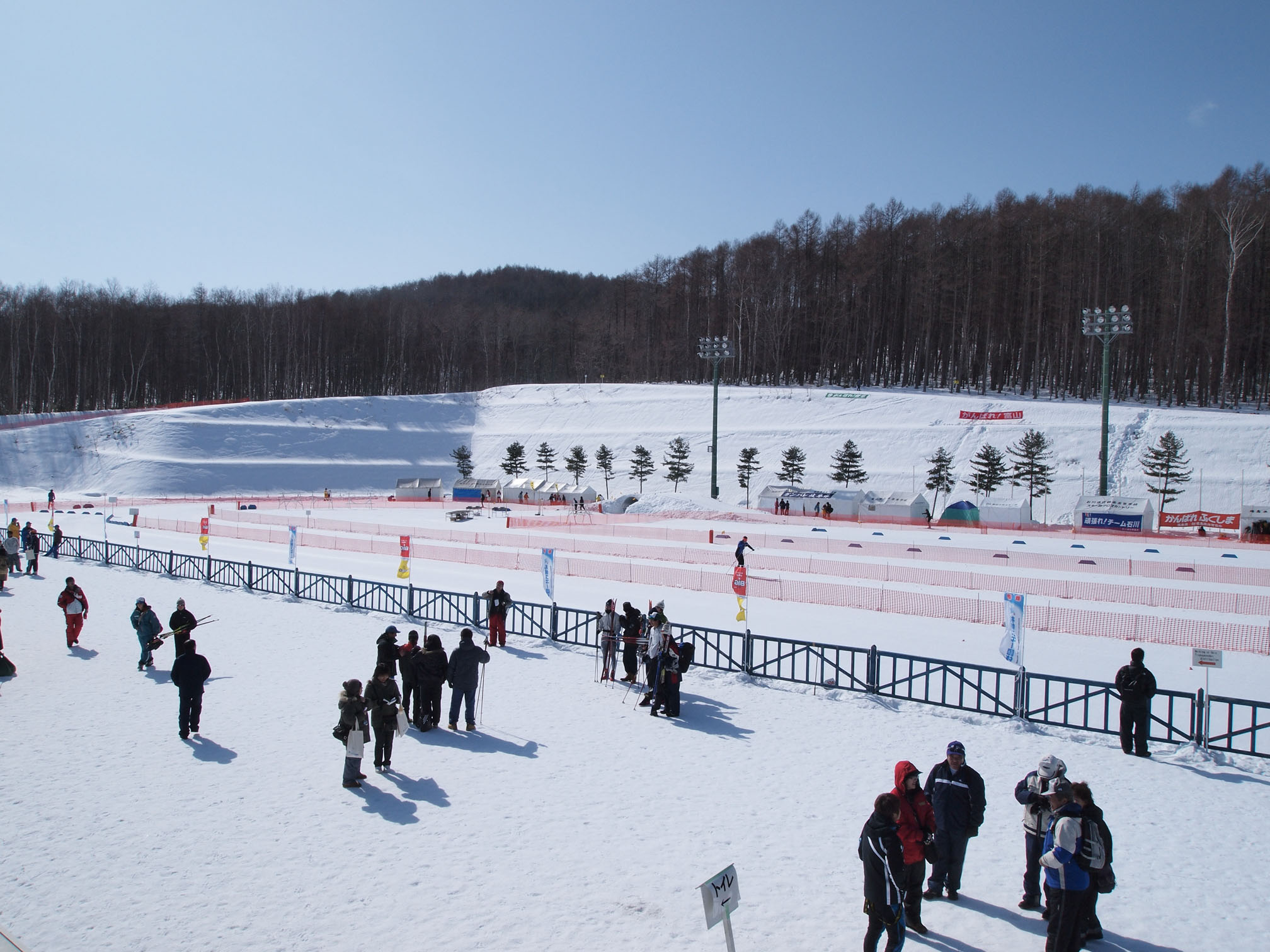 Shirohatayama stadium, Sapporo, Hokkaido, Japan